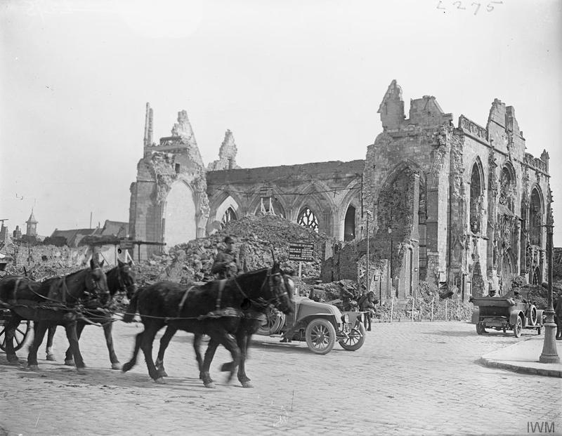 The British Army on the Western Front, 1914-1918 The ruins of the early 16th century church of St. Jean in Peronne which had a remarkable sculptured portal, 17 March 1918.